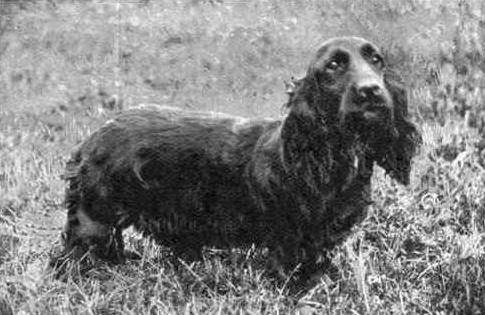 The Field Spaniel "Stylish Girl", published in 1903.